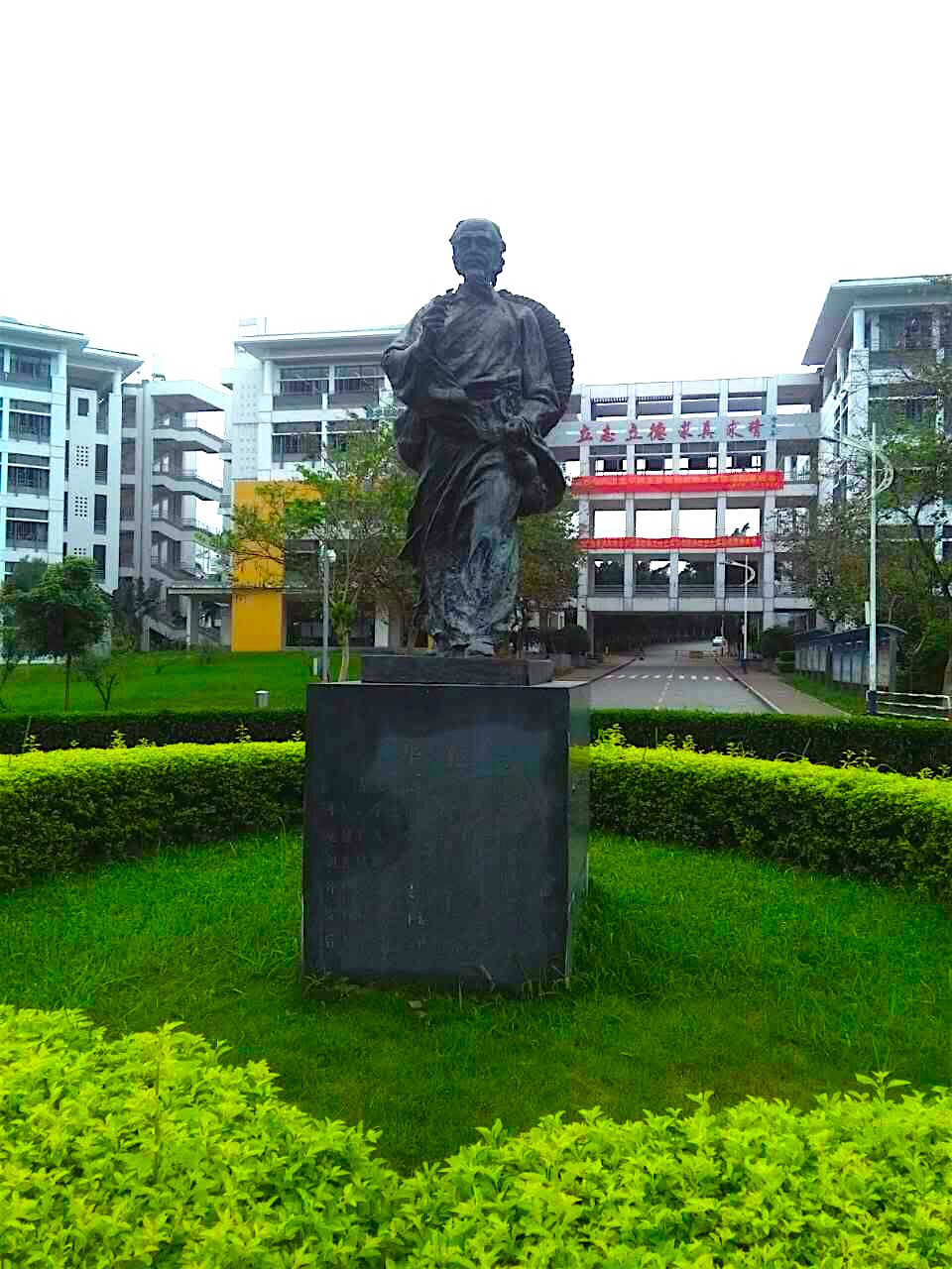 a statue of Hua Tuo in Guangdong Medical University donated by alumni